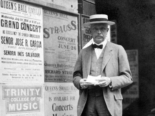 Richard Strauss by poster for his concert on 26th June.